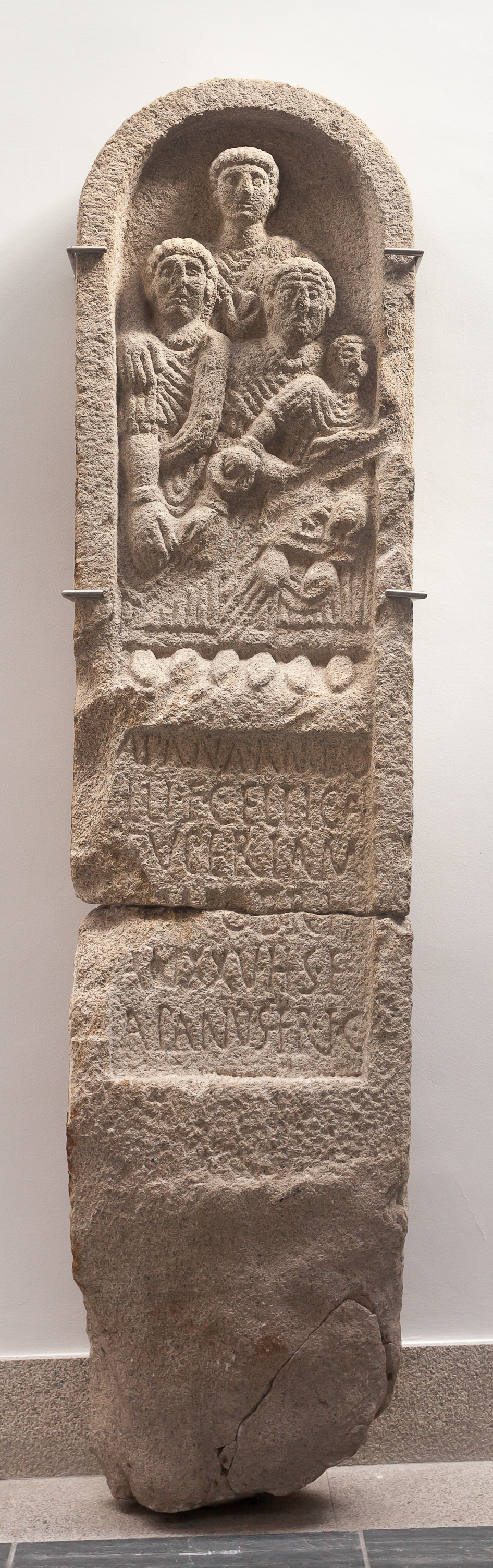 Stele of Crecente. Museo Provincial de Lugo